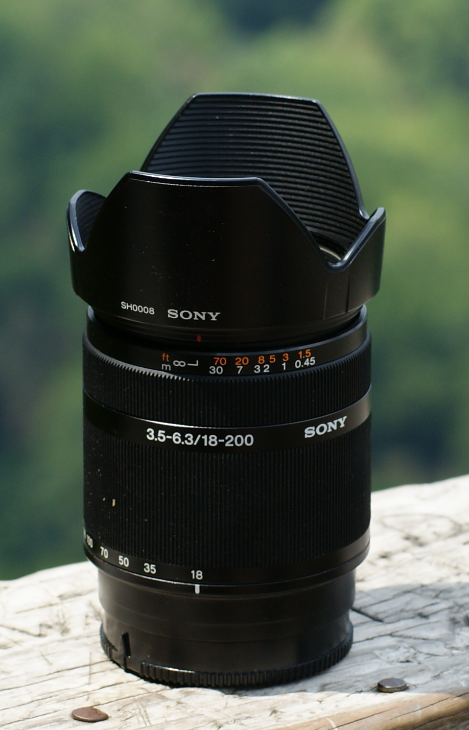 Sony 18-200 lens